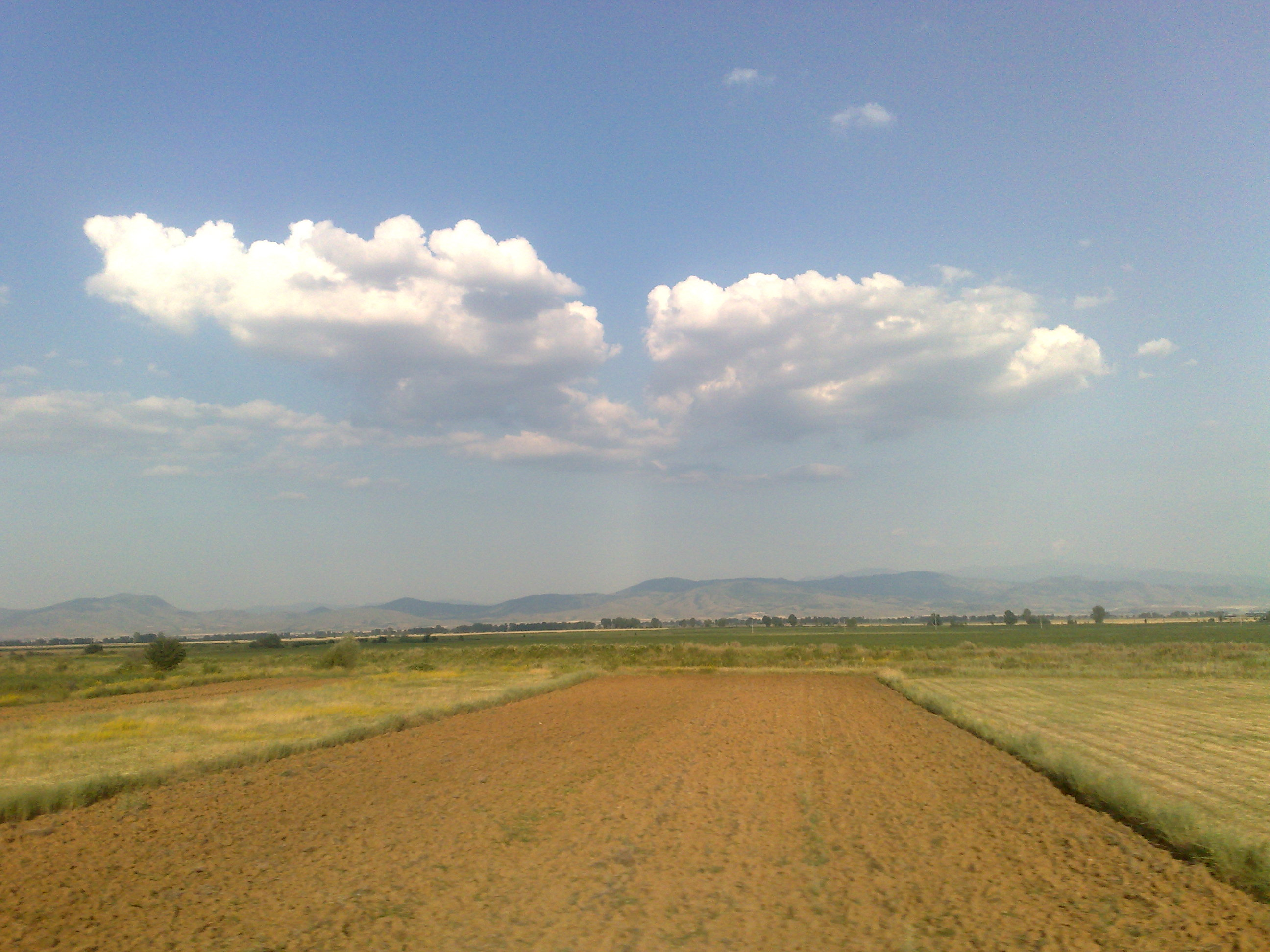 Pelagonia valley, Macedonia